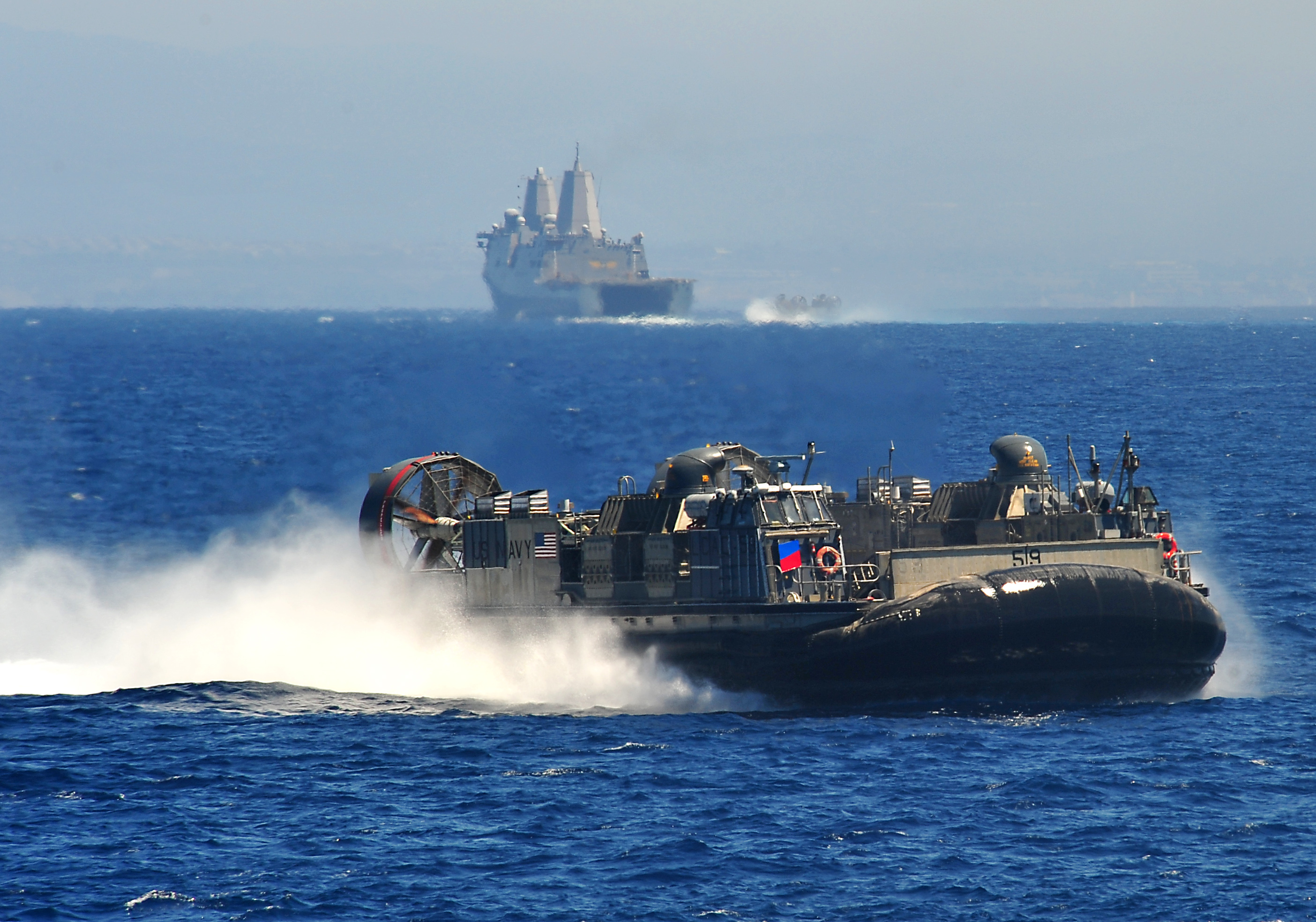 PACIFIC OCEAN (Aug. 27, 2012) Landing Craft Air Cushion (LCAC) 59, assigned to Assault Craft Unit (ACU) 5, transits the Pacific Ocean during a certification exercise (CERTEX). CERTEX is the final pre-deployment exercise, which is designed to strengthen the blue-green team’s ability to operate together, and respond to various situations while deployed. (U.S. Navy photo by Mass Communication 3rd Class Shawnte Bryan/Released) 120827-N-YQ852-138 Join the conversation navylive.dodlive.mil